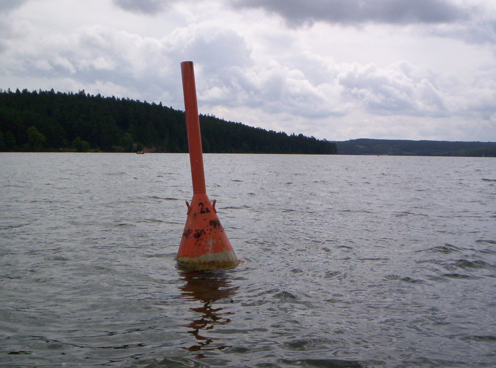 This picture shows the Russian/Lithuanian border at Lake Vistytis, Lithuania.